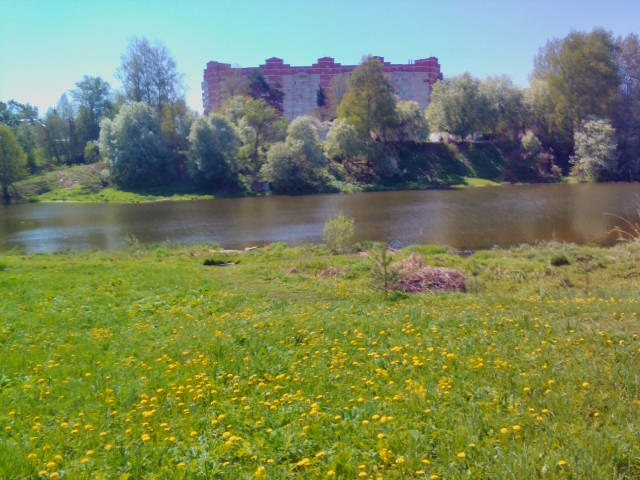 Махорка не далеко от городской больници